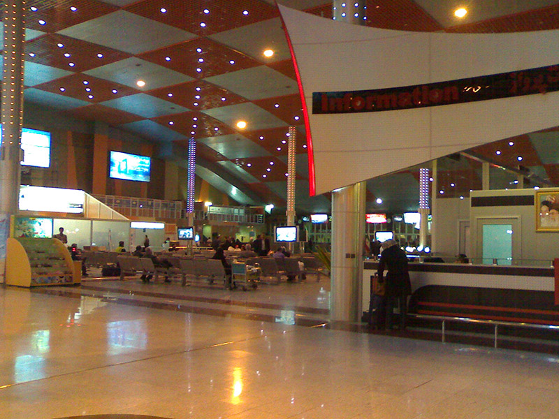 Hall of Tabriz International Airport.